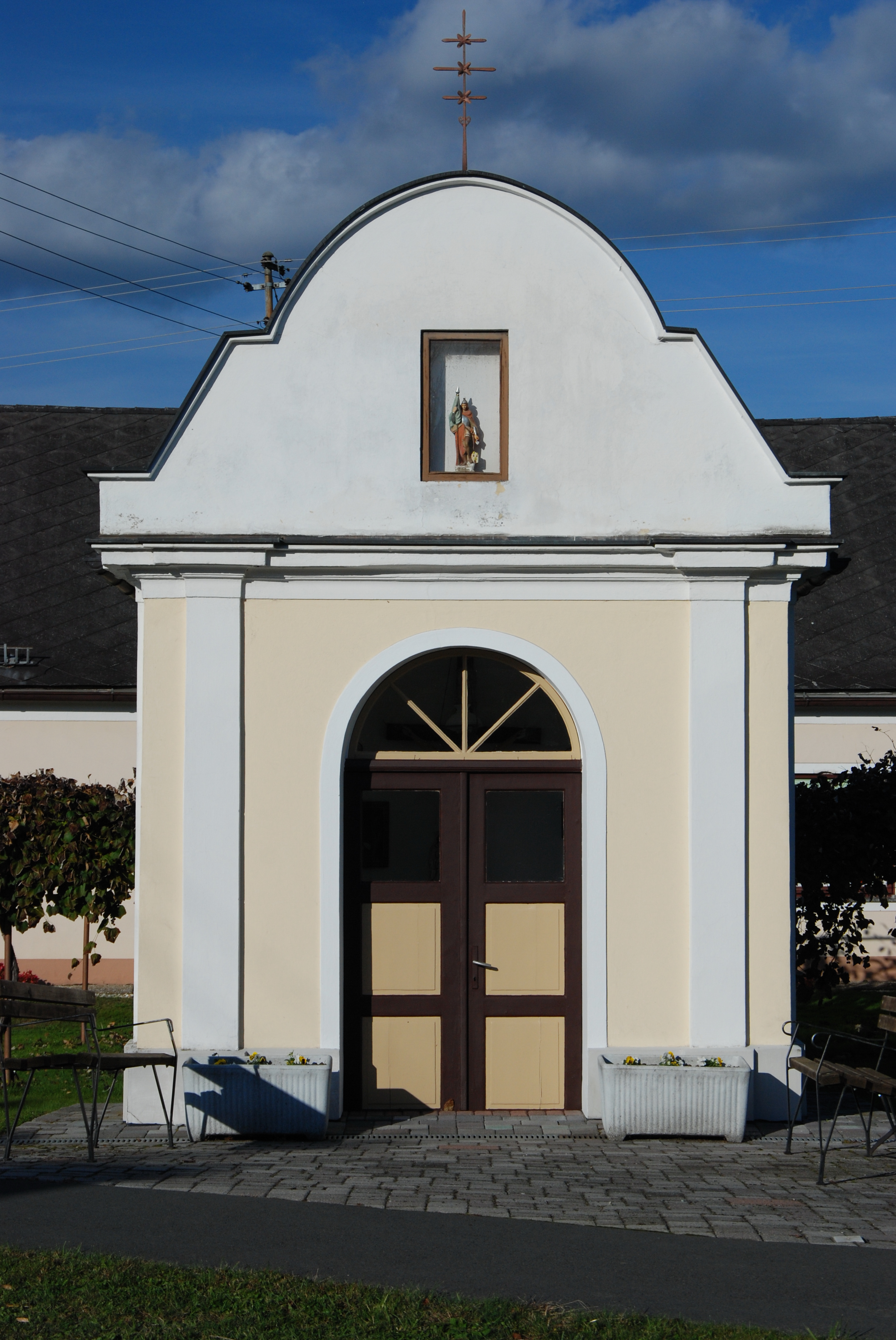 Kapelle Gritsch